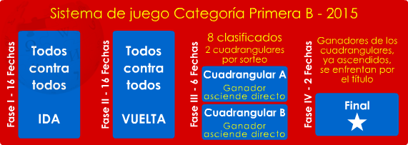 Game system For Tournament 2015 in Colombia